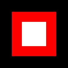 Flag of the Rehoboth Basters